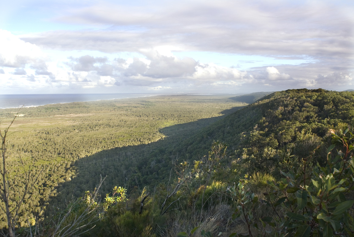 View of the 18 Mile Swamp wetland and notophyll vine forest from the high dune escarpment